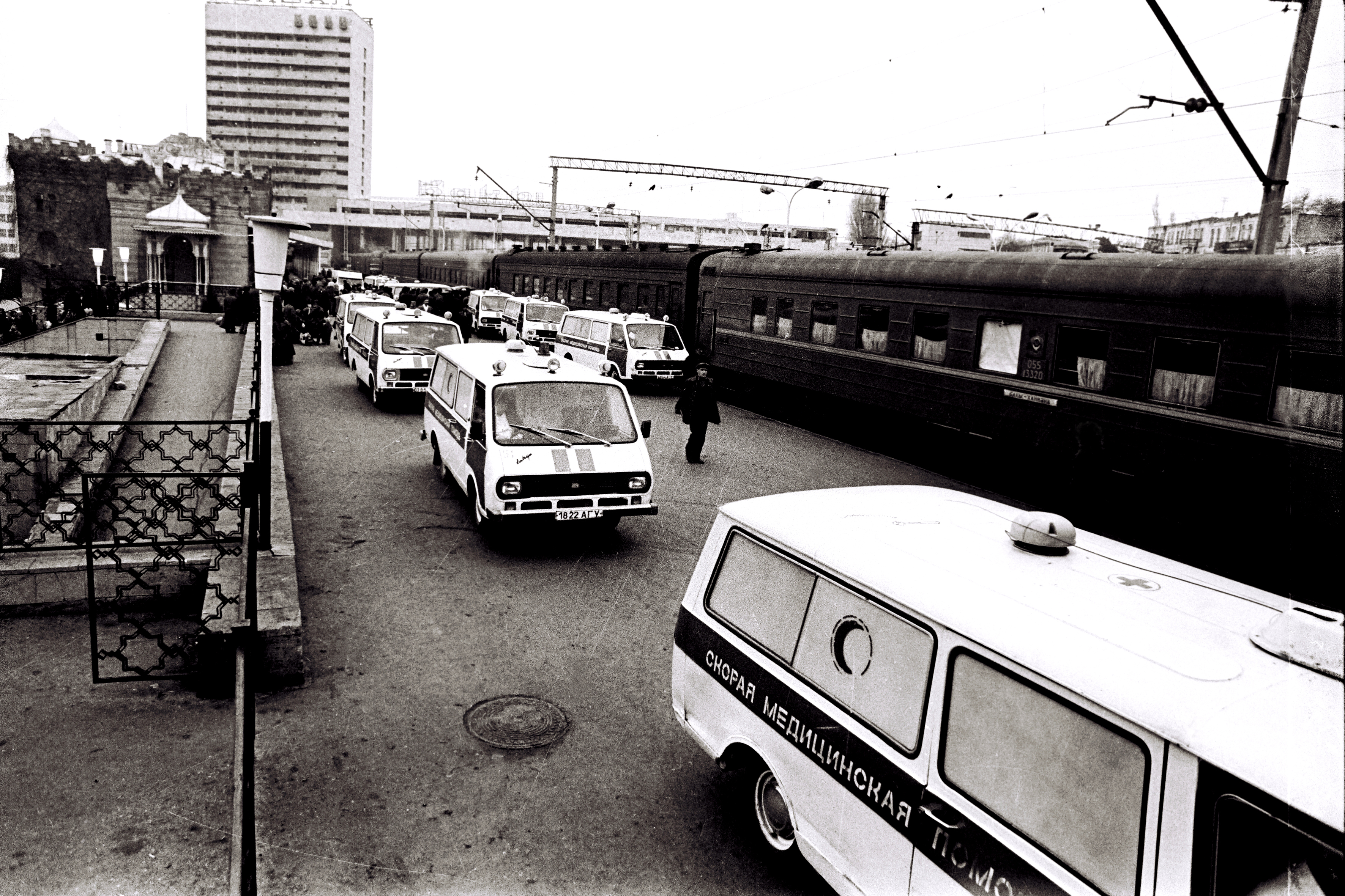 Trains in Baku Train Station carrying Azerbaijanians murdered and wounden in Khojali massacre. Carrying murderes with an ambulance.